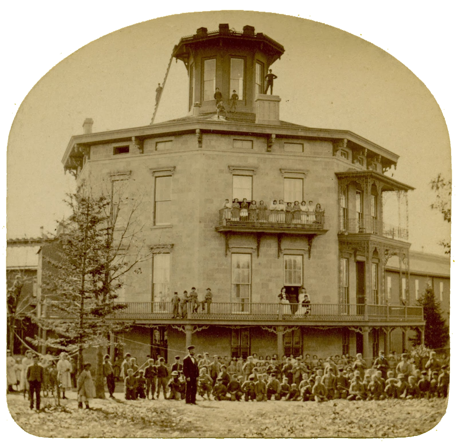 Orphans stand in front of the octagonal Soldiers' Orphans Home, formerly Harvey Hospital in Madison, Wisconsin, Wisconsin Historical Society. Note: The octagon house was originally built for Governor Leonard J. Farwell and designed by August Kutzbock and Samuel H. Donnel, architects of the third Wisconsin State Capitol. Orphanage was organized for the children of soldiers killed in the American Civil War due to the effort of Cordelia Harvey, the widow of Gov. Louis Harvey.